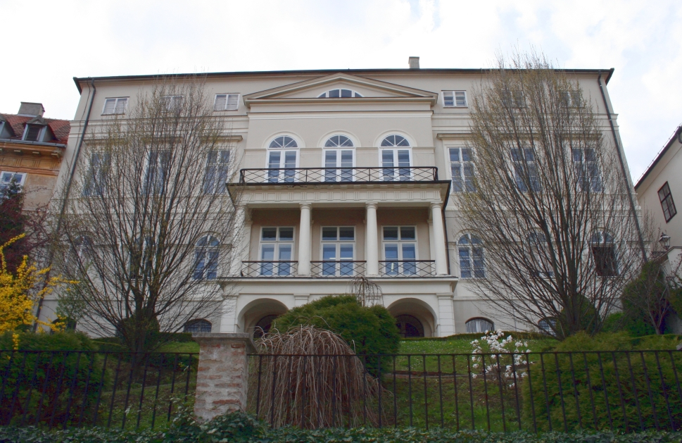 Croatian Home of Croatian Academy of Science and Arts in Zagreb Opatička 18, Zagreb